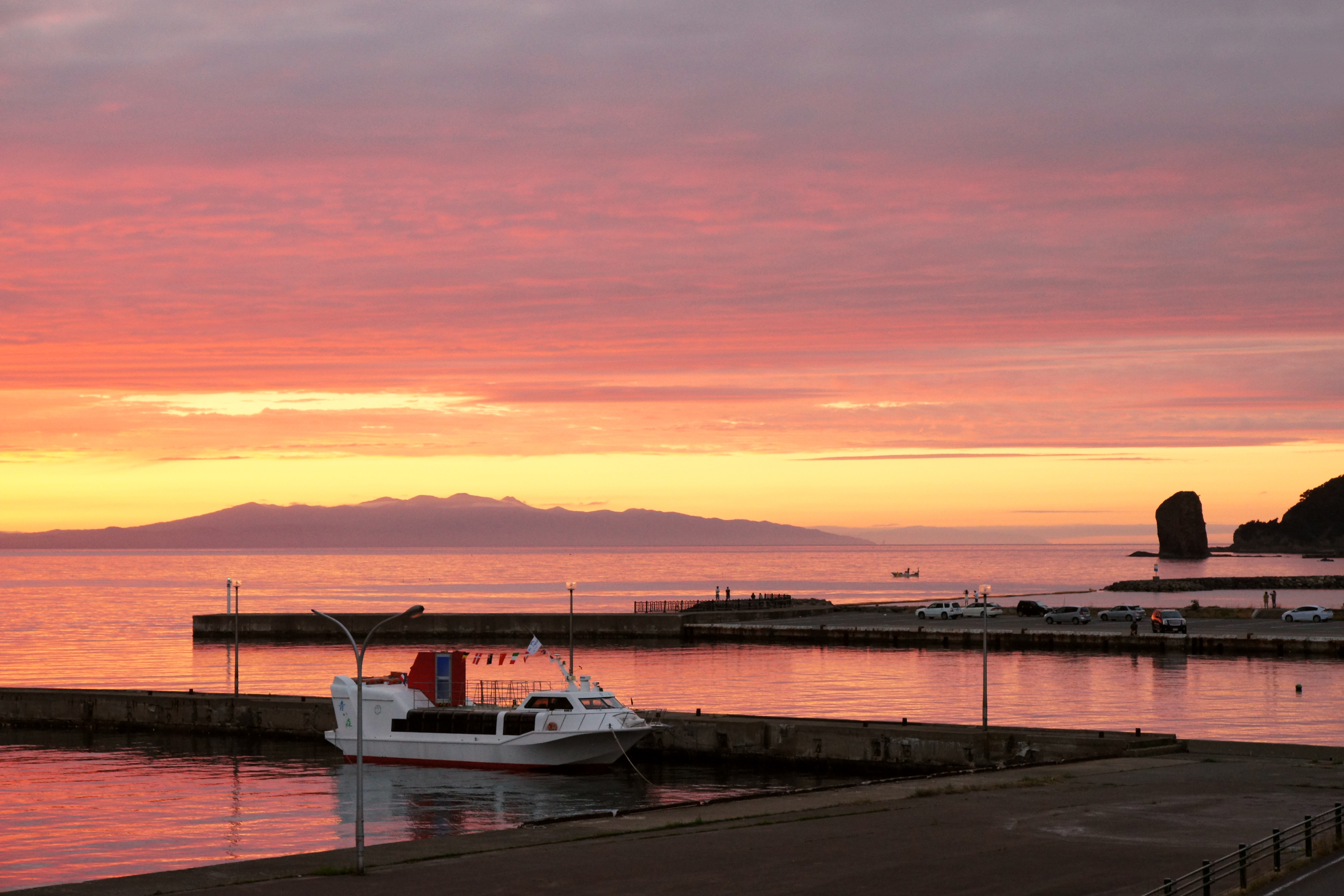 Twilight in Aomori Bay seen from Asamushi Onsen in Aomori, Aomori prefecture, Japan